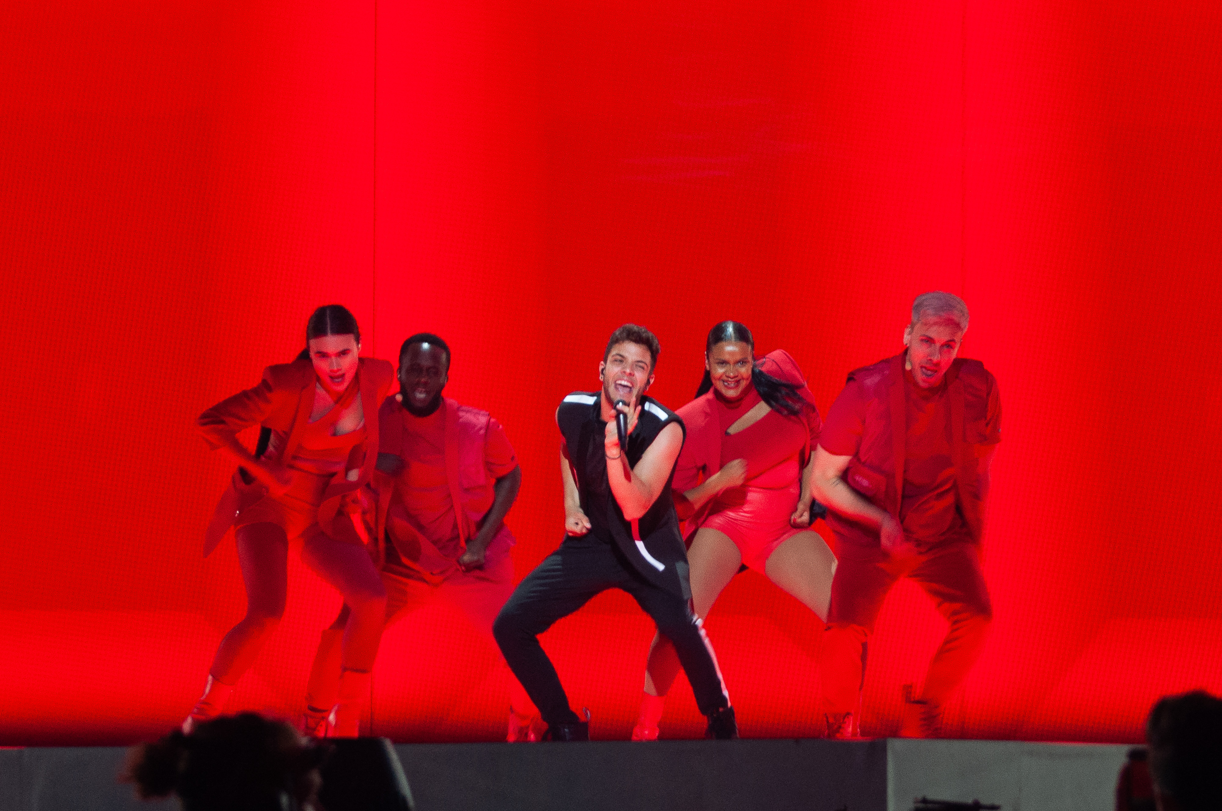 At the 2019 Eurovision Song Contest Grand Final Dress Rehearsal